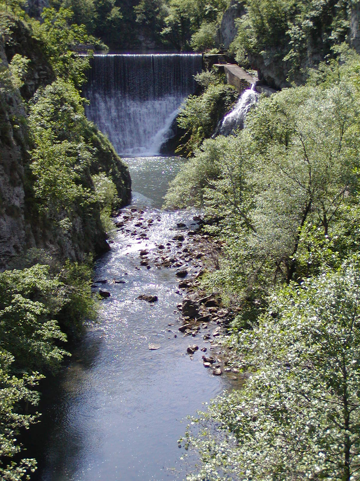 Uzice, Serbia - The Big dam in canyon of the river Djetinja